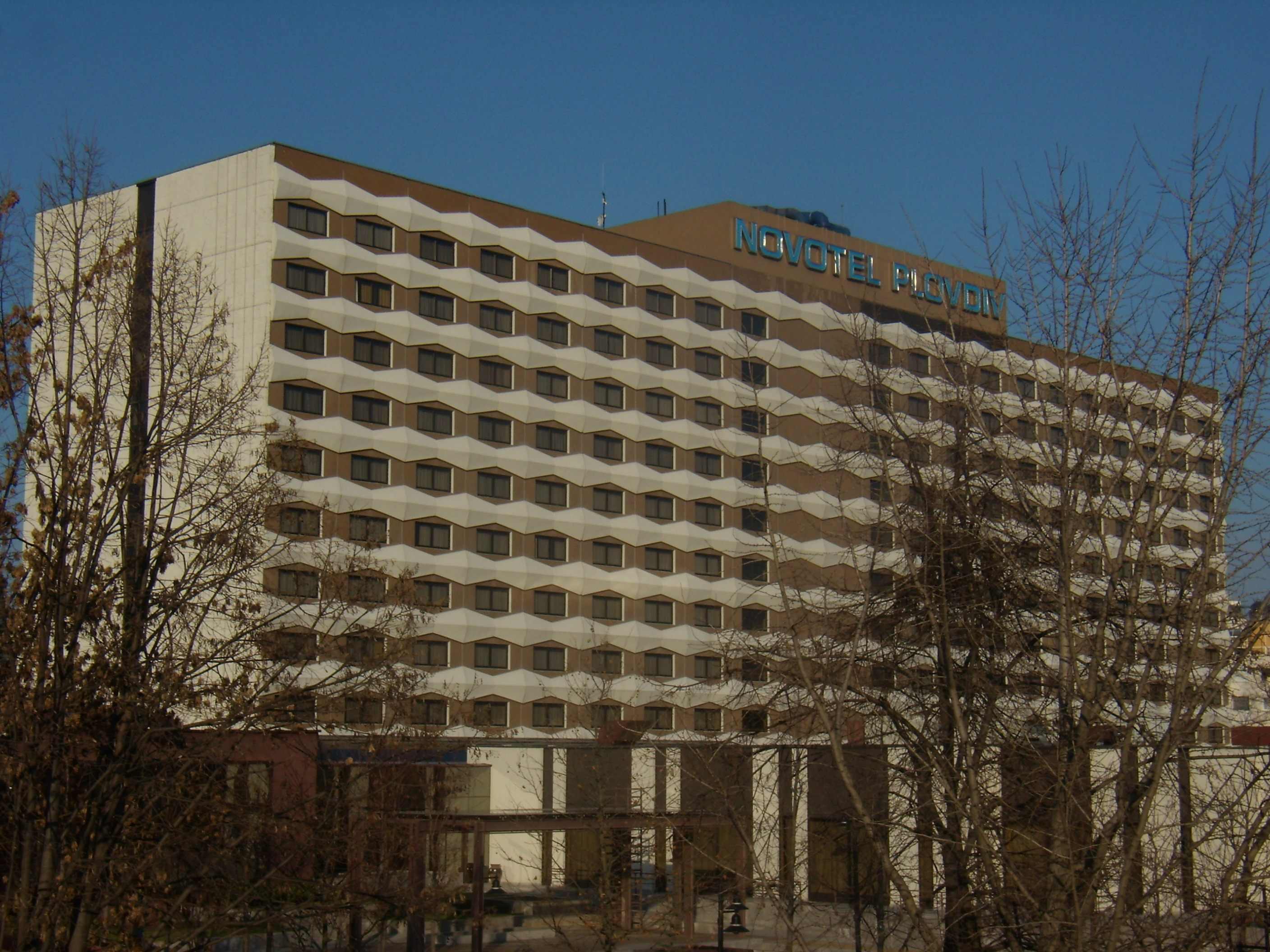 Novotel Plovdiv